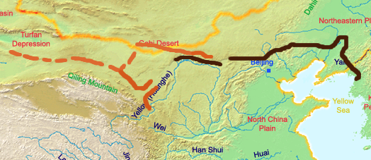 A map of the great wall of china of Han Dynasty